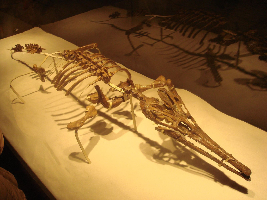 Holotype skeleton of Tchoiria klauseni at 'El Regreso de los Dinosaurios' Expo (Santiago de Chile).